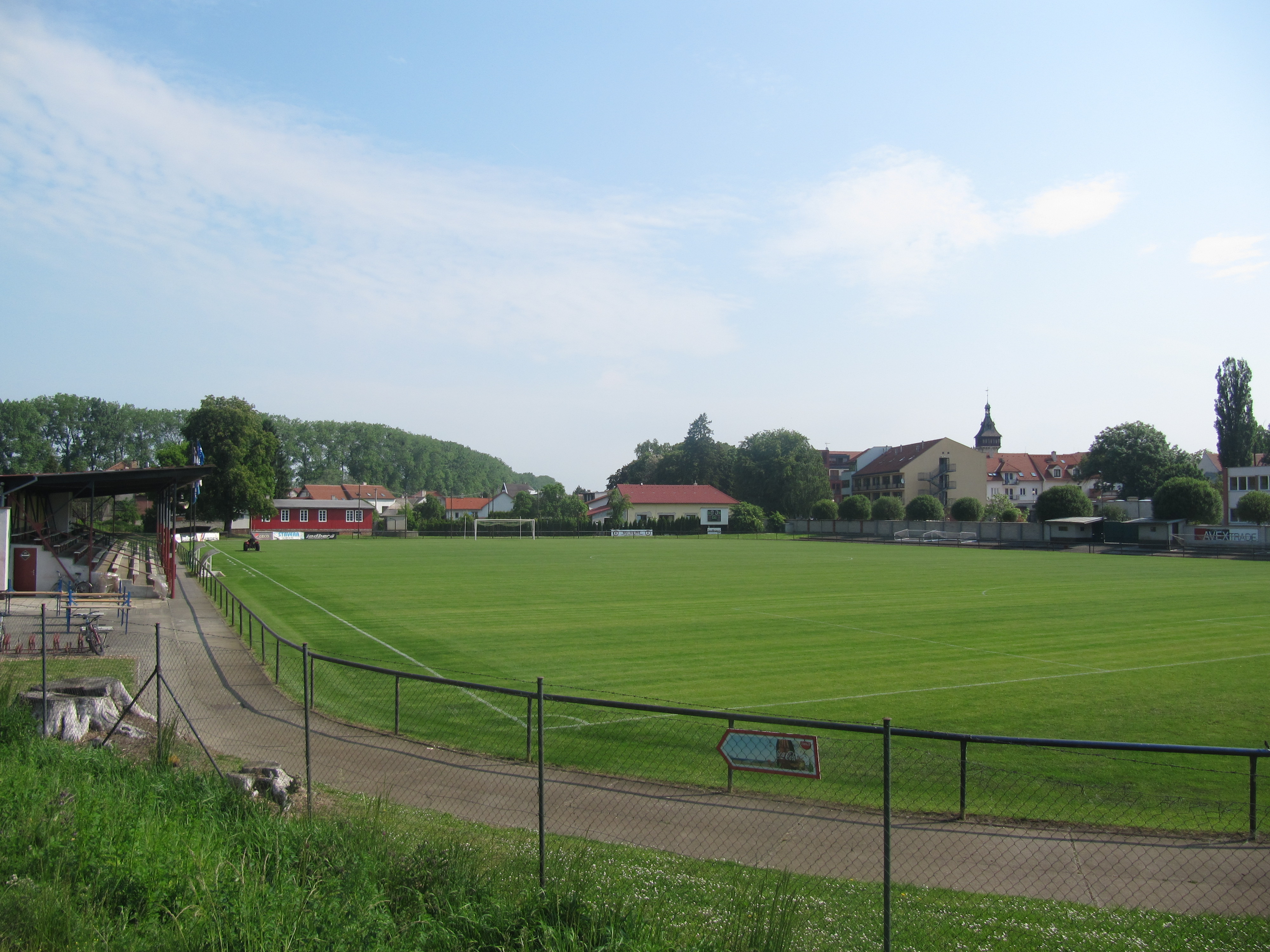 Napajedla in Zlín District, Czech Republic. Football stadium.)